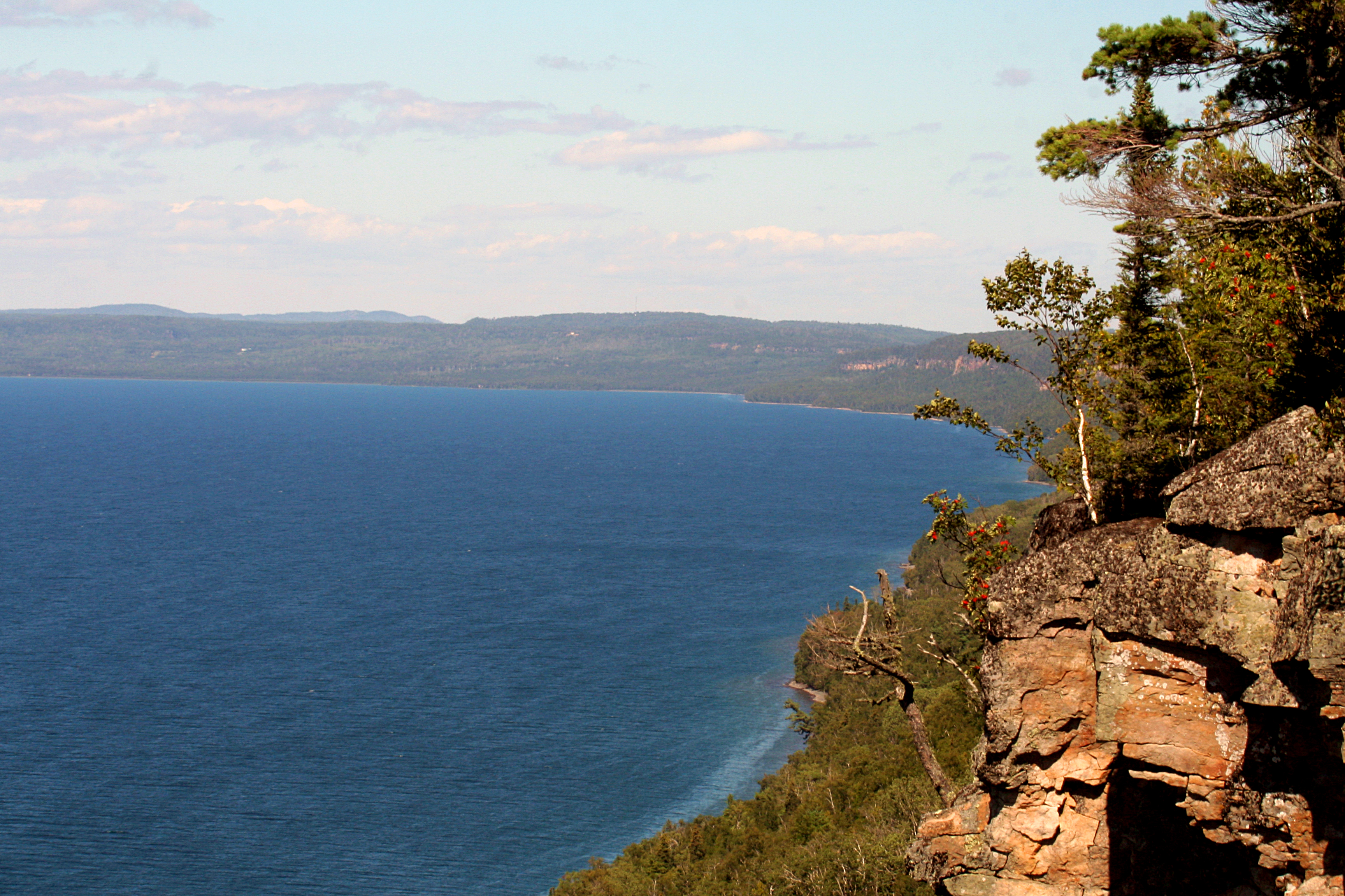 Thunder Bay Lookout, Sleeping Giant, Ontario, Canada